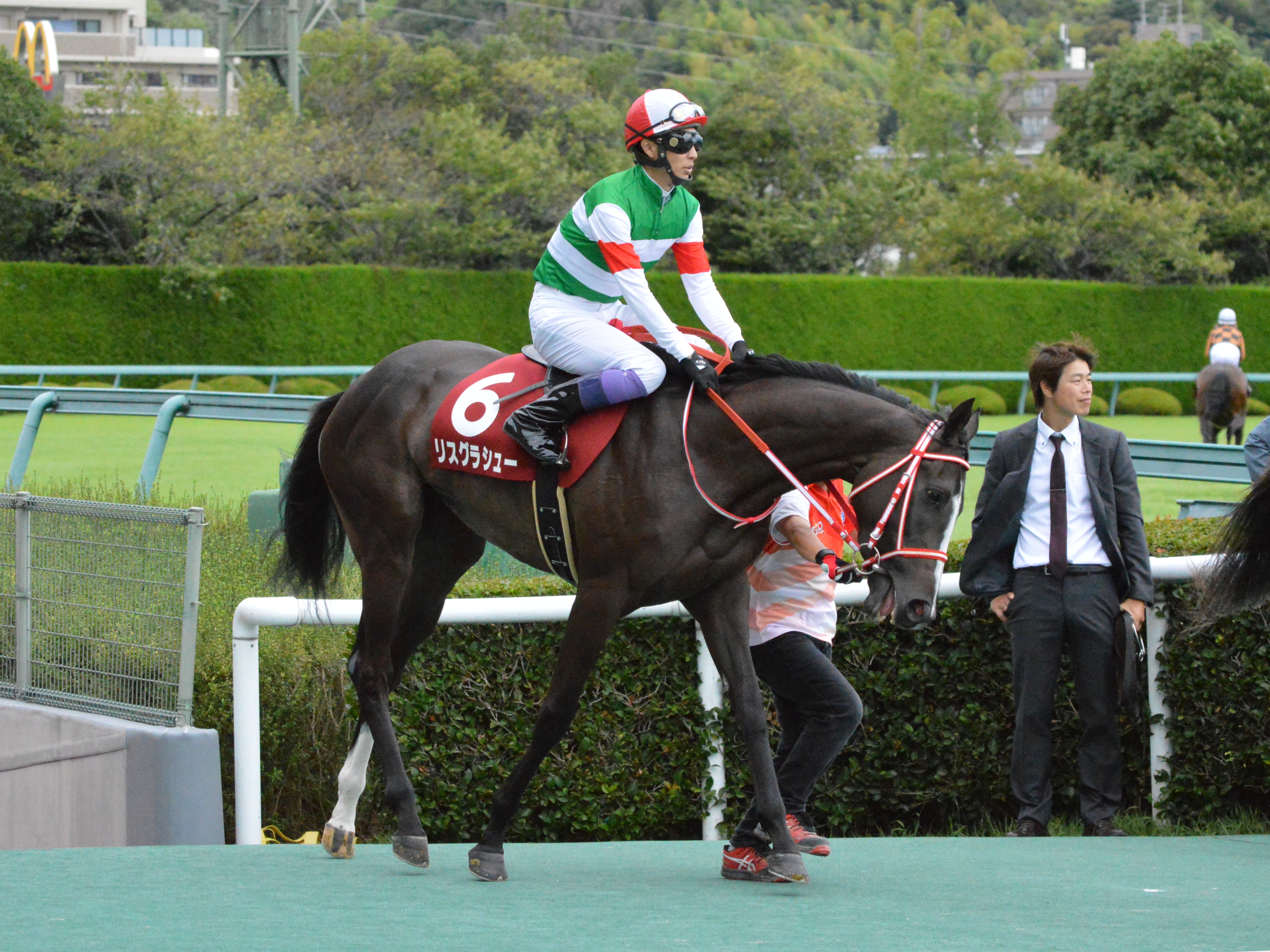 Japanese race horse Lys gracieux at Hanshin racecourse. Hanshin (JPN) 17 Sep 2017 Kansai Telecasting Corp. Sho Rose Stakes (Shuka Sho Trial) (Grade 2) (3yo Fillies) (Turf) (3yo) 1m1f Firm RankHorse NameOddsAgeWgtTrainerJockey1stRabbit Run (USA)25/1F38-7Katsuhiko SumiiRyuji Wada2ndKawakita Enka (JPN)204/10F38-7Tamio HamadaNorihiro Yokoyama3rdLys gracieux (JPN)53/10F38-7Yoshito YahagiYutaka Take4th - 18th/omission